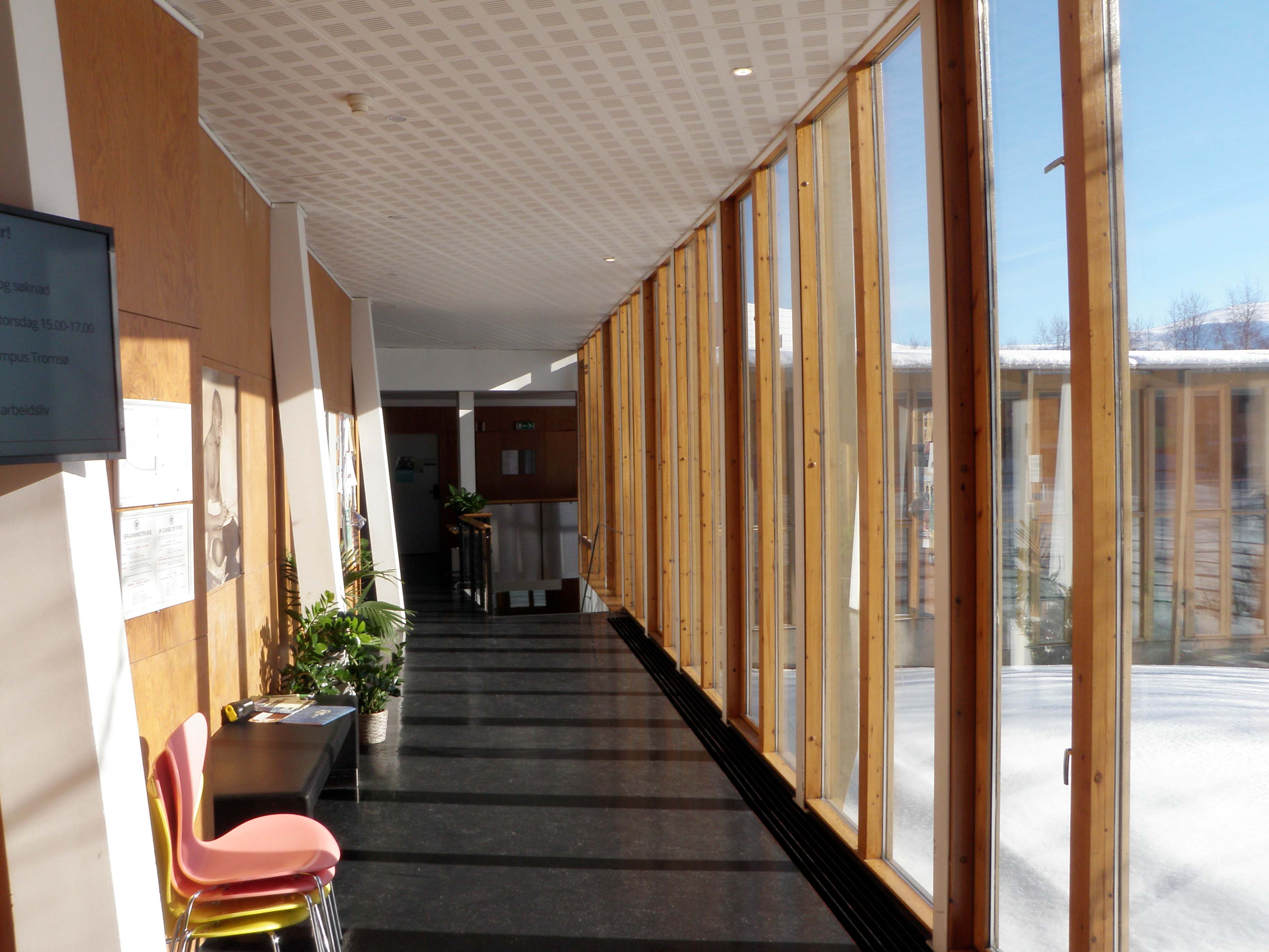 Entrance hall of the Lower Pavilion of the Centre for Peace Studies at the University of Tromsø, Tromsø, Norway.